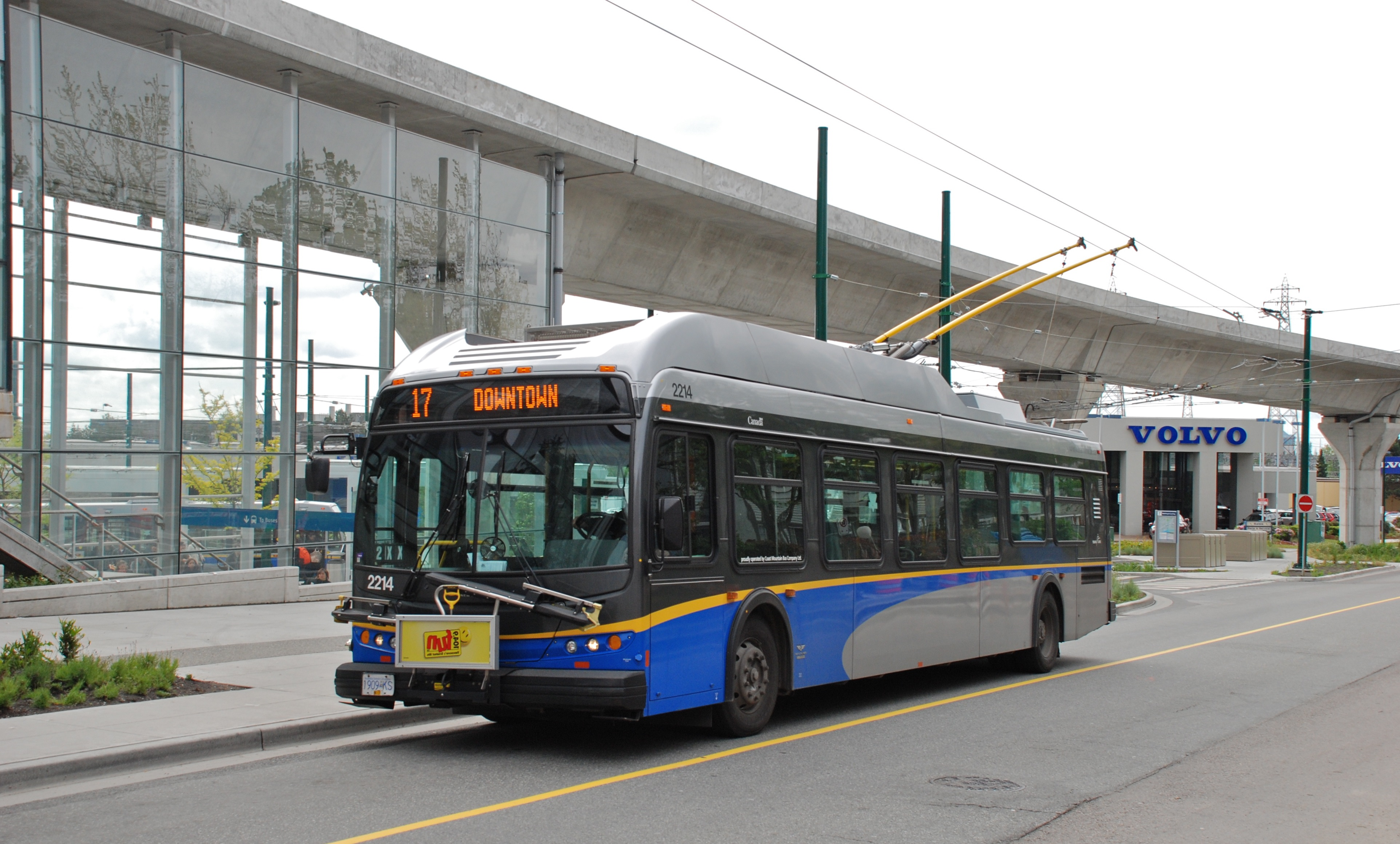 Low-floor trolleybus (or trolley bus) 2214 of Vancouver's TransLink is a 2007-built New Flyer E40LFR. It is shown leaving the bus loop/transit centre at the Marine Drive station of the Canada Line rapid-transit line.